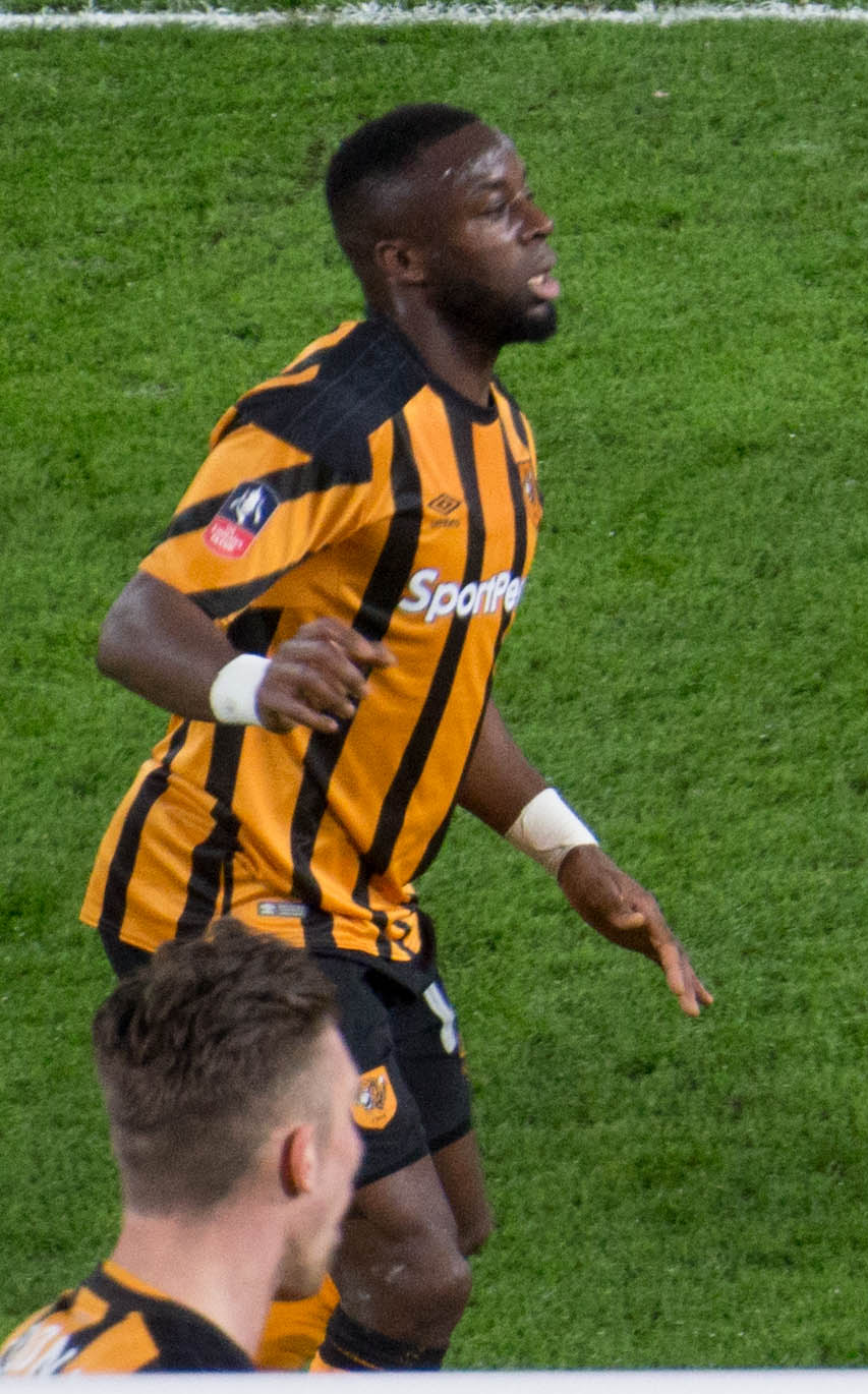 FA Cup 5th round 16.2.18